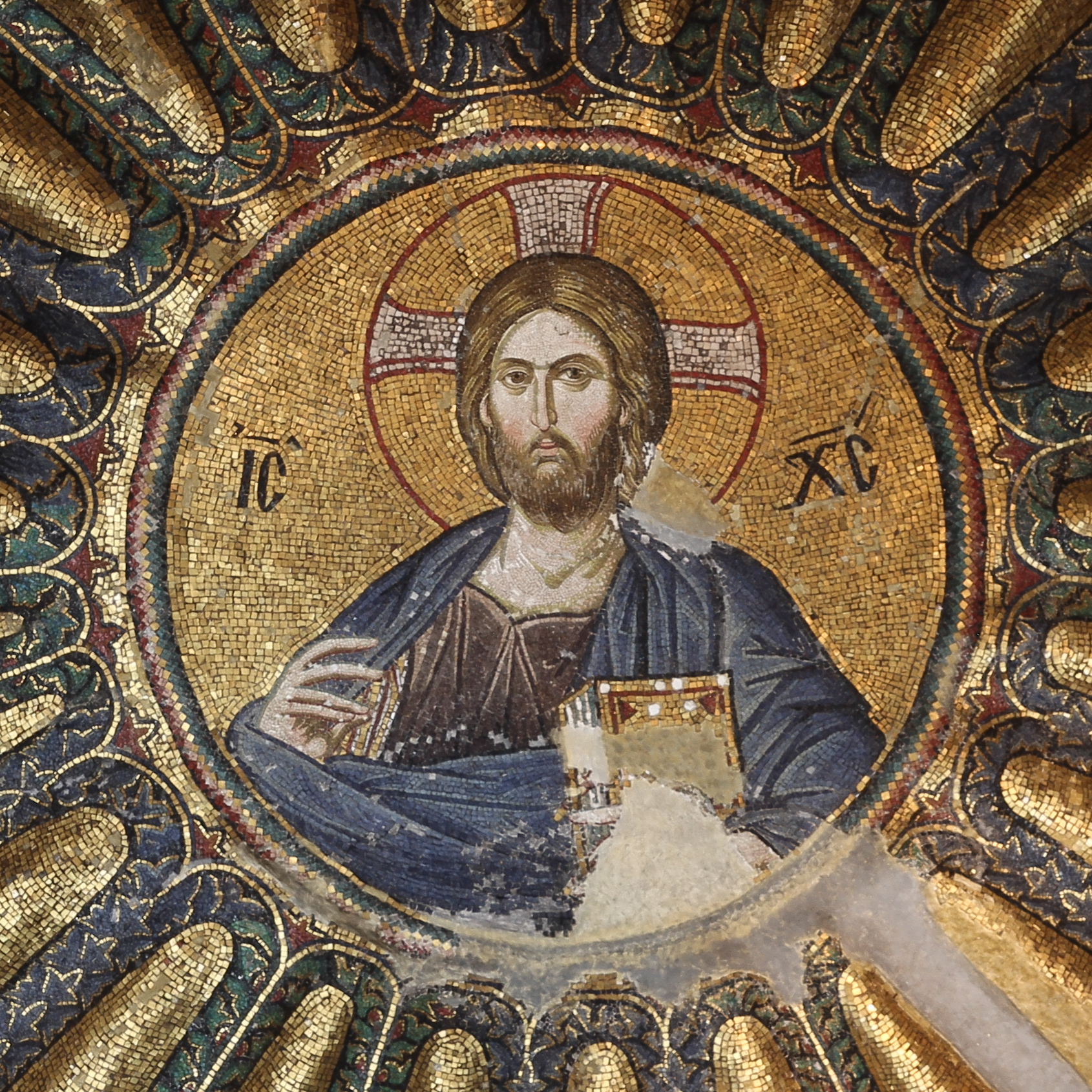 Pantocrator mosaic at the top of the southern cupula of the inner narthex of the Church of the Holy Saviour in Chora, in Istanbul.